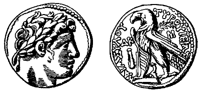 An illustration from the Encyclopaedia Biblica, a 1903 publication which is now in the public domain. Fig. C for article "Shekel". Image of a half-shekel from Tyre in the year 102 BC. The human-like head is that of Melkarth, the Tyrian deity (often called, slightly misleadingly, the 'Tyrian Hercules'). On the other side of the coin is an eagle with one foot on the prow of a galley. Next to it is a club, which is a symbol of Melkarth. It says "Year 24, [coin] of Tyre, the sacred and inviolable [city]"